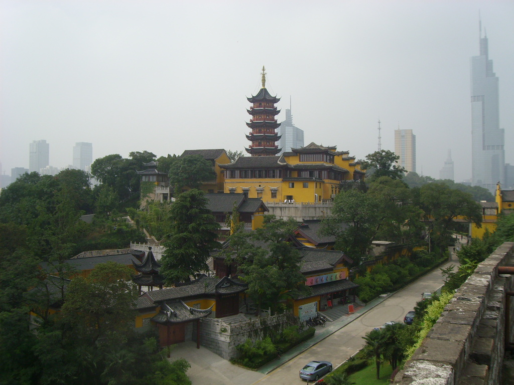 Jiming Si Temple — in Nanjing, Jiangsu province, China. Nanjing Greenland Financial Center in background.